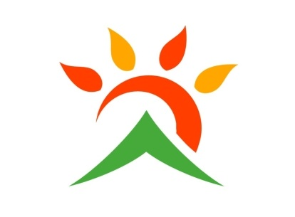 Flag of Asago Hyogo